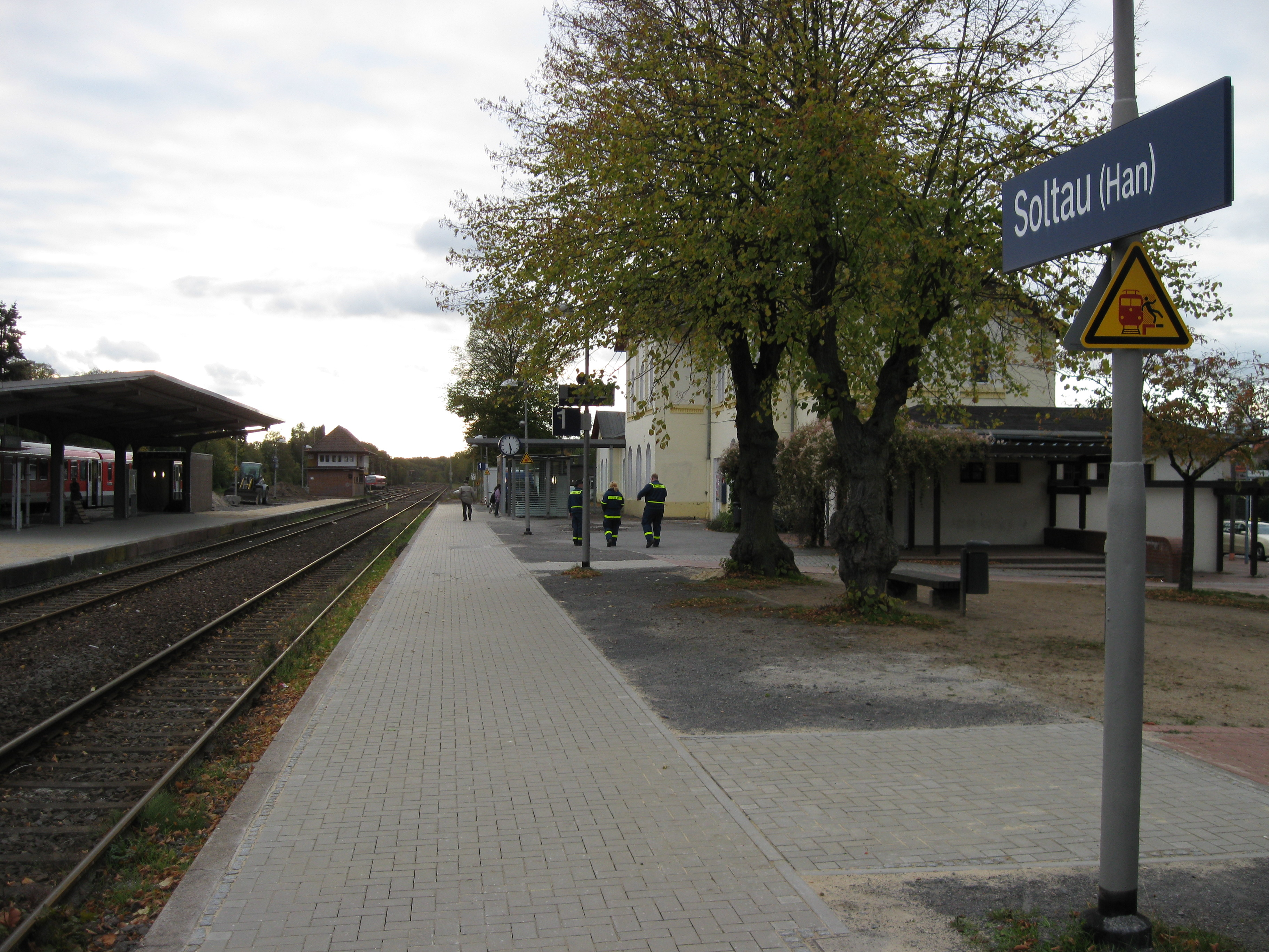 Soltau Station, Germany